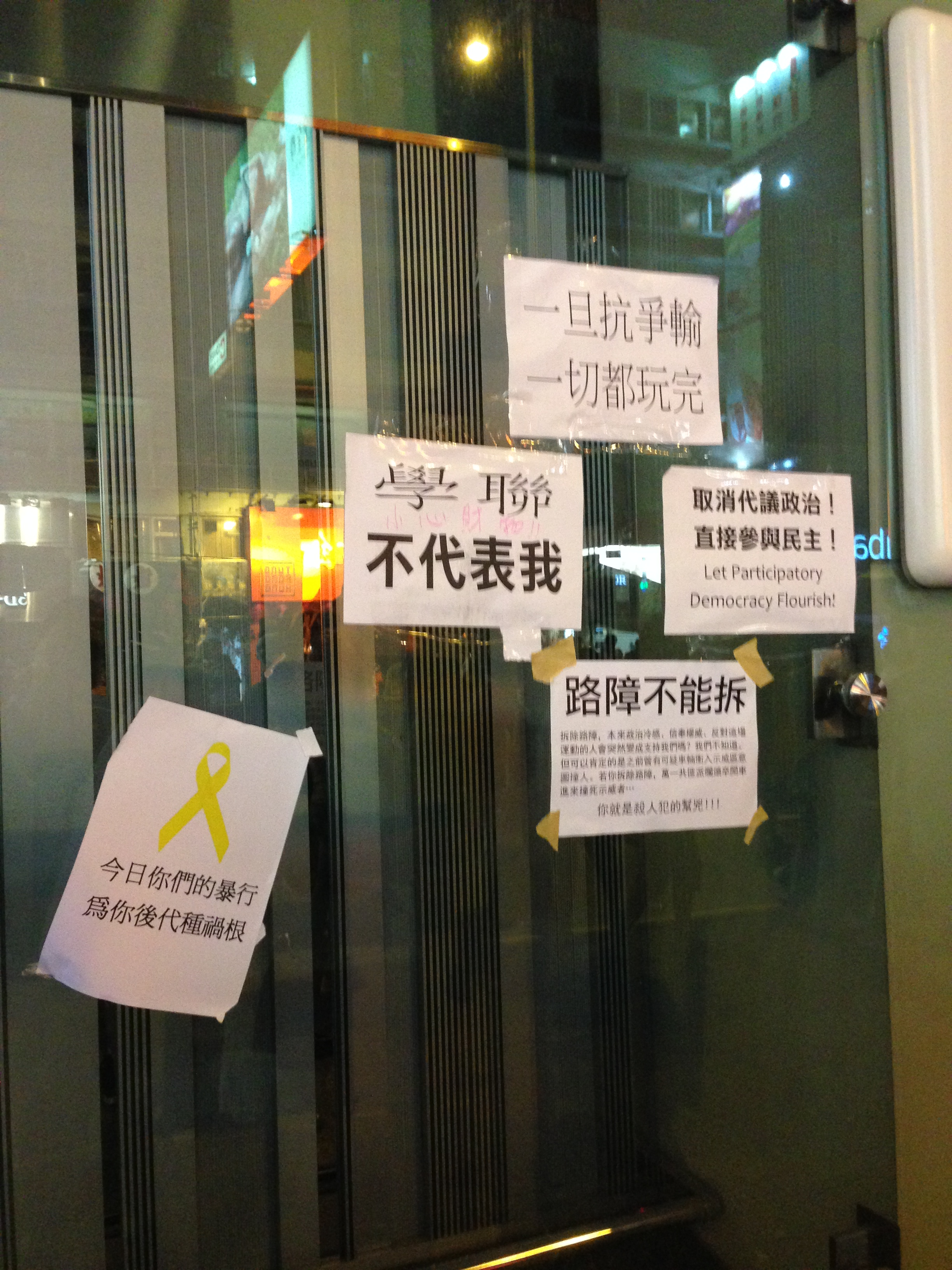 Poster stating that there is no leader in this protest